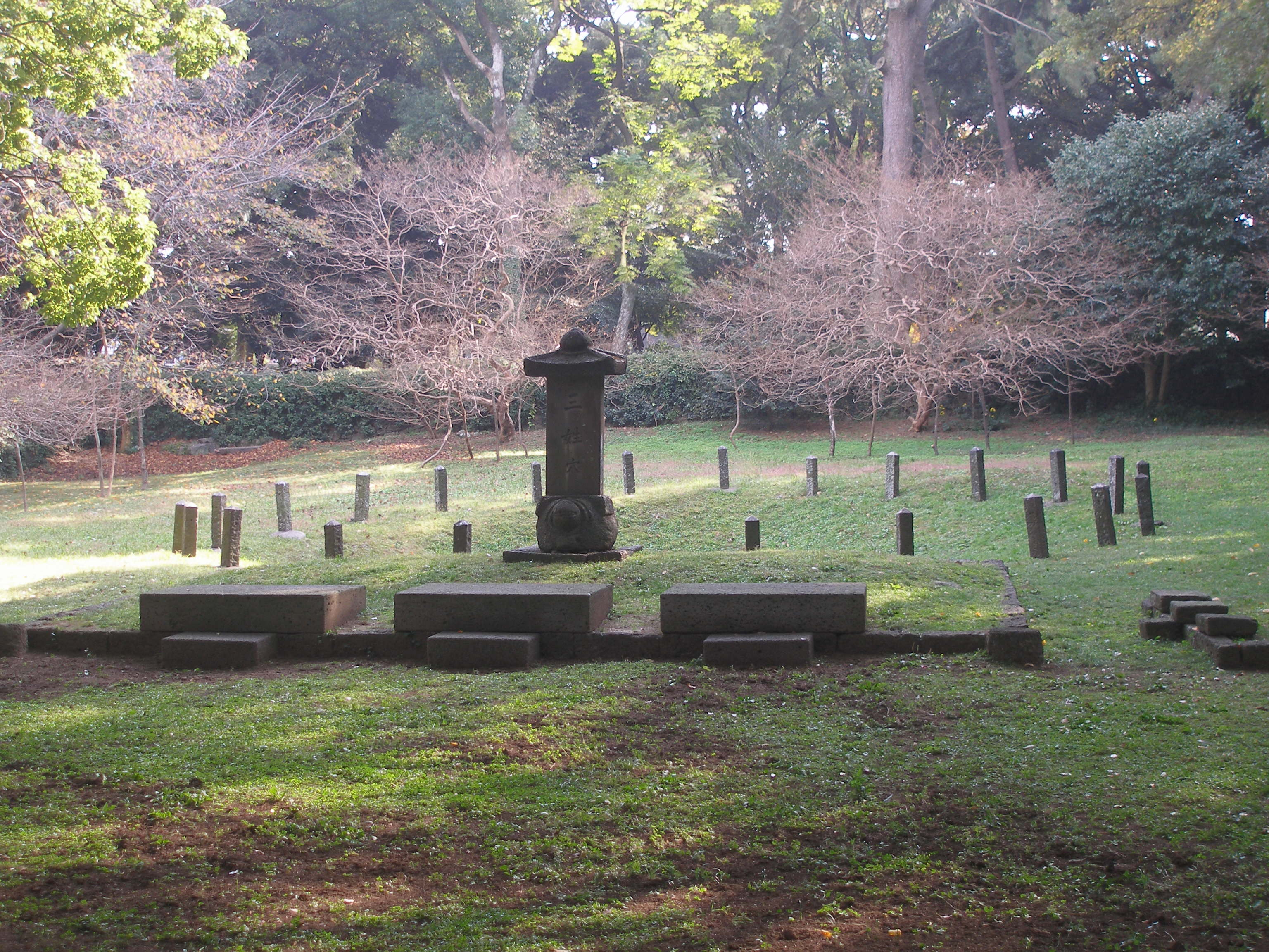 Samseonghyul, three sacred holes from which three forfathers of Jeju people originated